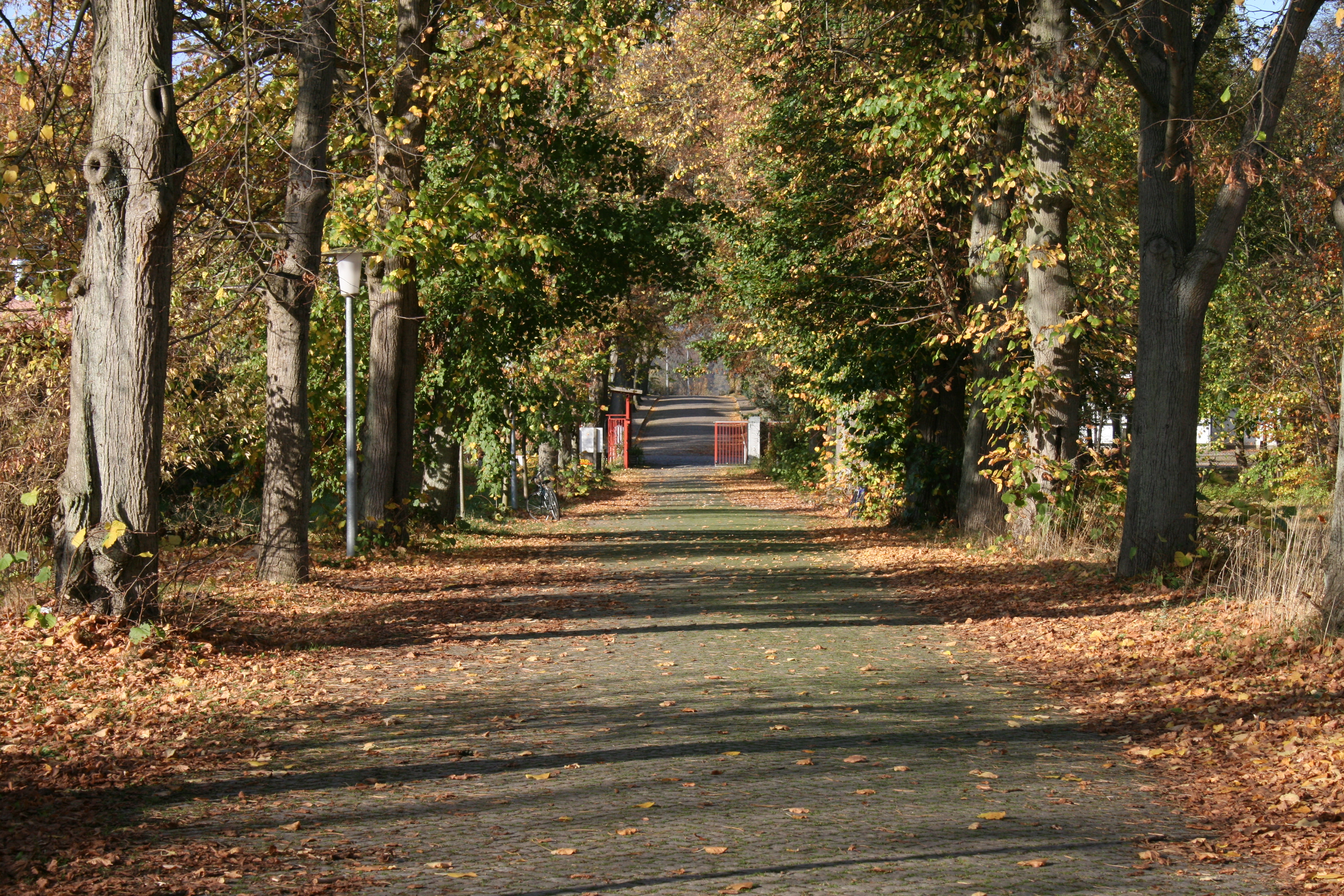 Alt Rehse